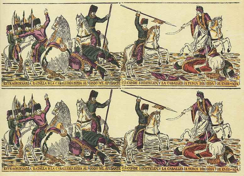 Extraordinary battle between Russian cavalry led by General Adjutant Count Suchtelen and Turkish cavalry led by Emir-Aqa. Spanish broadside.